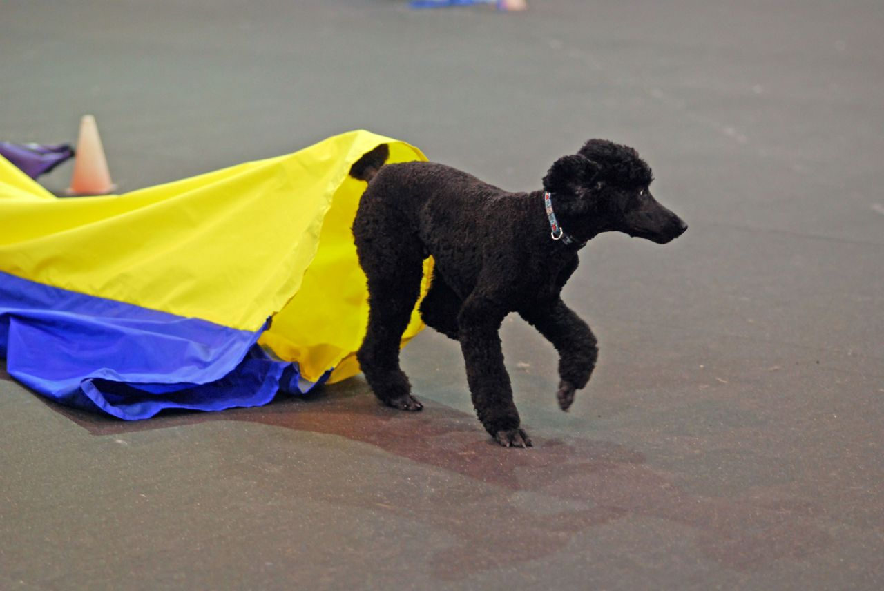 A Standard Poodle exiting a chute (sometimes called a cloth tunnel) during an agility competition at the Rose City Classic AKC Show 2007, Portland, Oregon, USA.